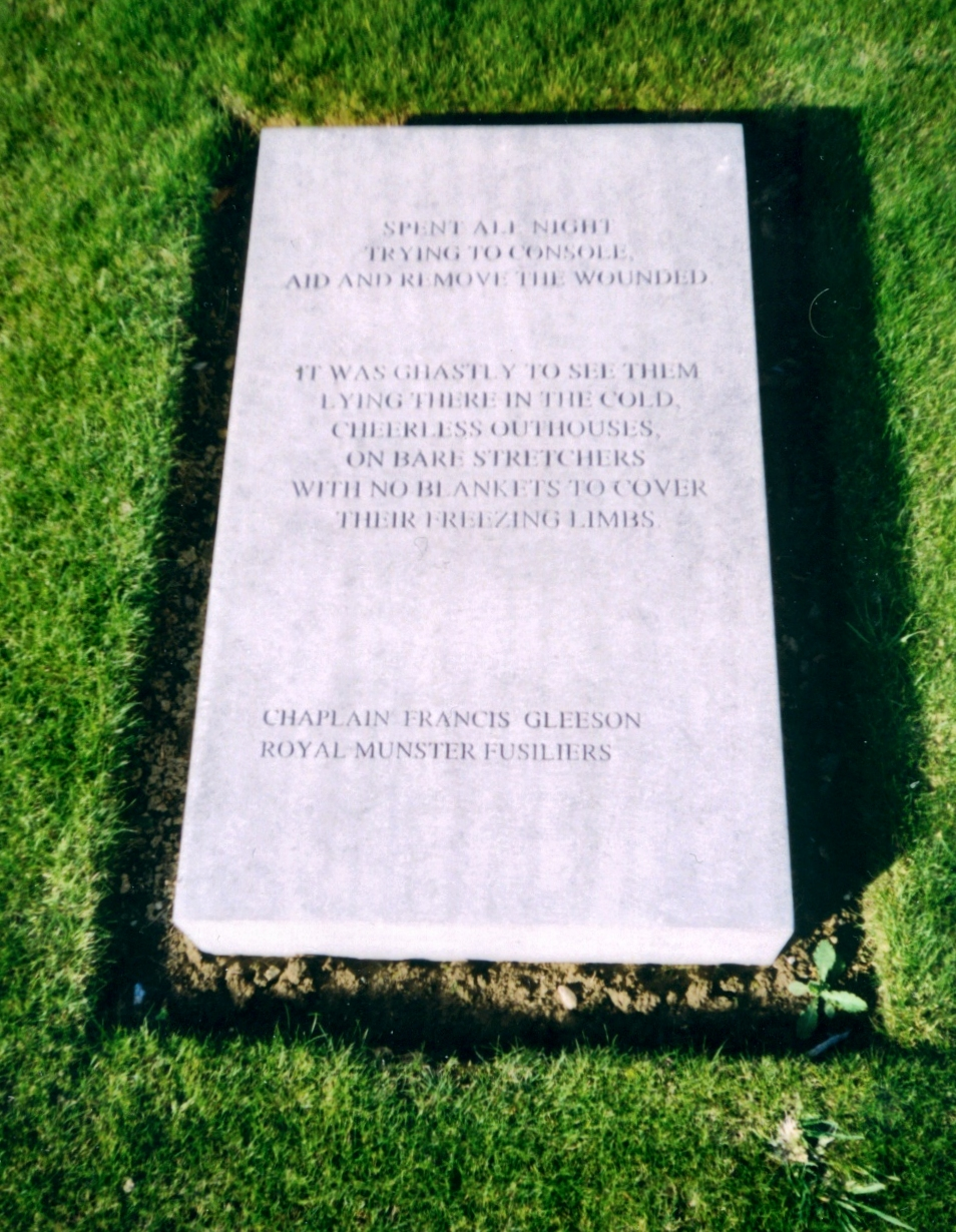 Stone tablet laid in the Island of Ireland Peace Park in Flanders, Belgium, with words by Francis Gleeson. Photograph by User:Redvers originally from wikipedia, now transferred to Commons. Note that the photograph has been altered by the author since the original upload and that the licence status has changed from Own Work GDFL to the more explicitly free Own Work Public Domain All Rights Released. Wording on Tablet: SPENT ALL NIGHT TRYING TO CONSOLE, AID AND REMOVE THE WOUNDED IT WAS GASTLY TO SEE THEM LYING THERE IN THE COLD, CHEERLESS OUTHOUSES, ON BARE STRETCHERS WITH NO BLANKETS TO COVER THEIR FREEZING LIMBS. FATHER FRANCIS GLEESON ROYAL MUNSTER FUSILIERS